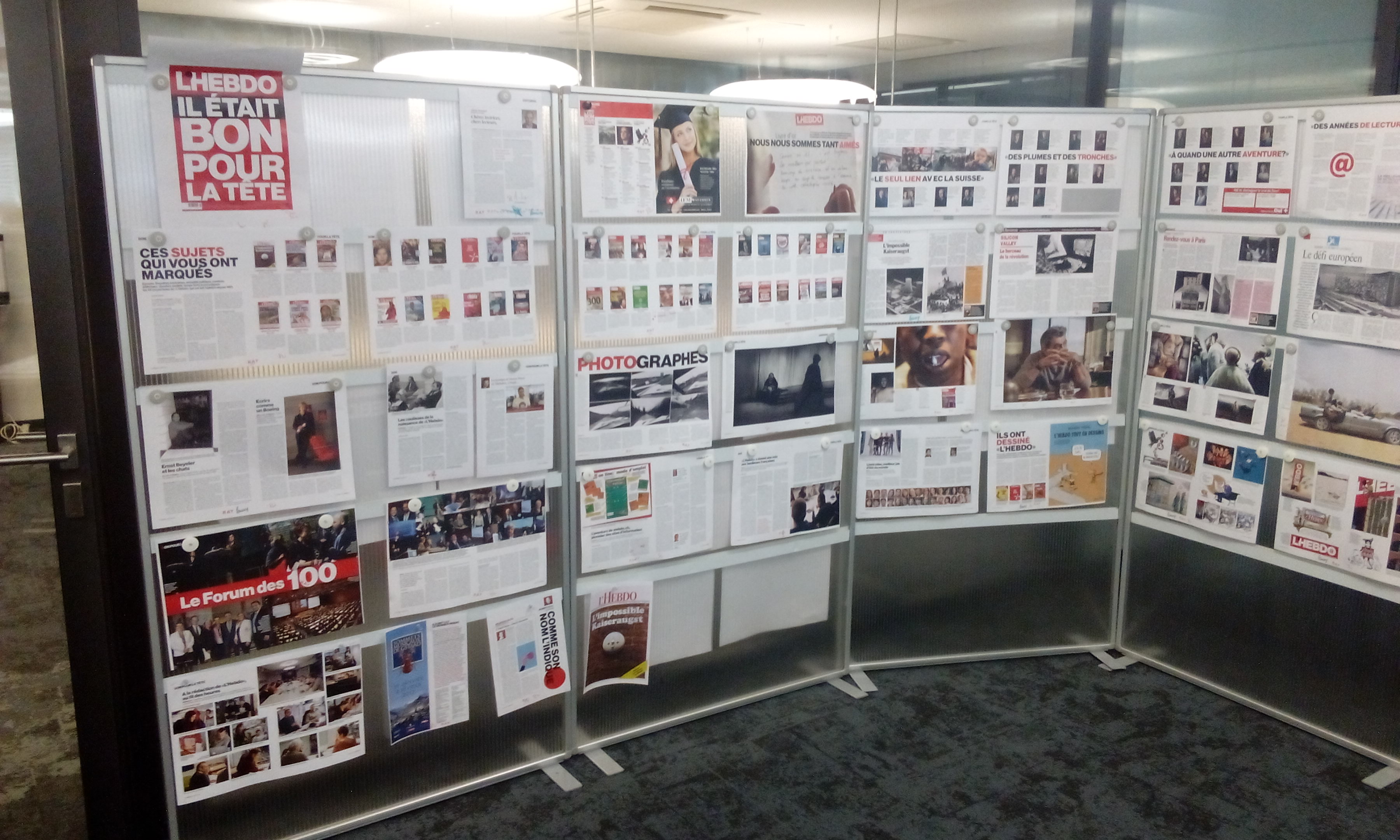 The final pages, ready to print, of the Swiss magazine l'Hebdo.